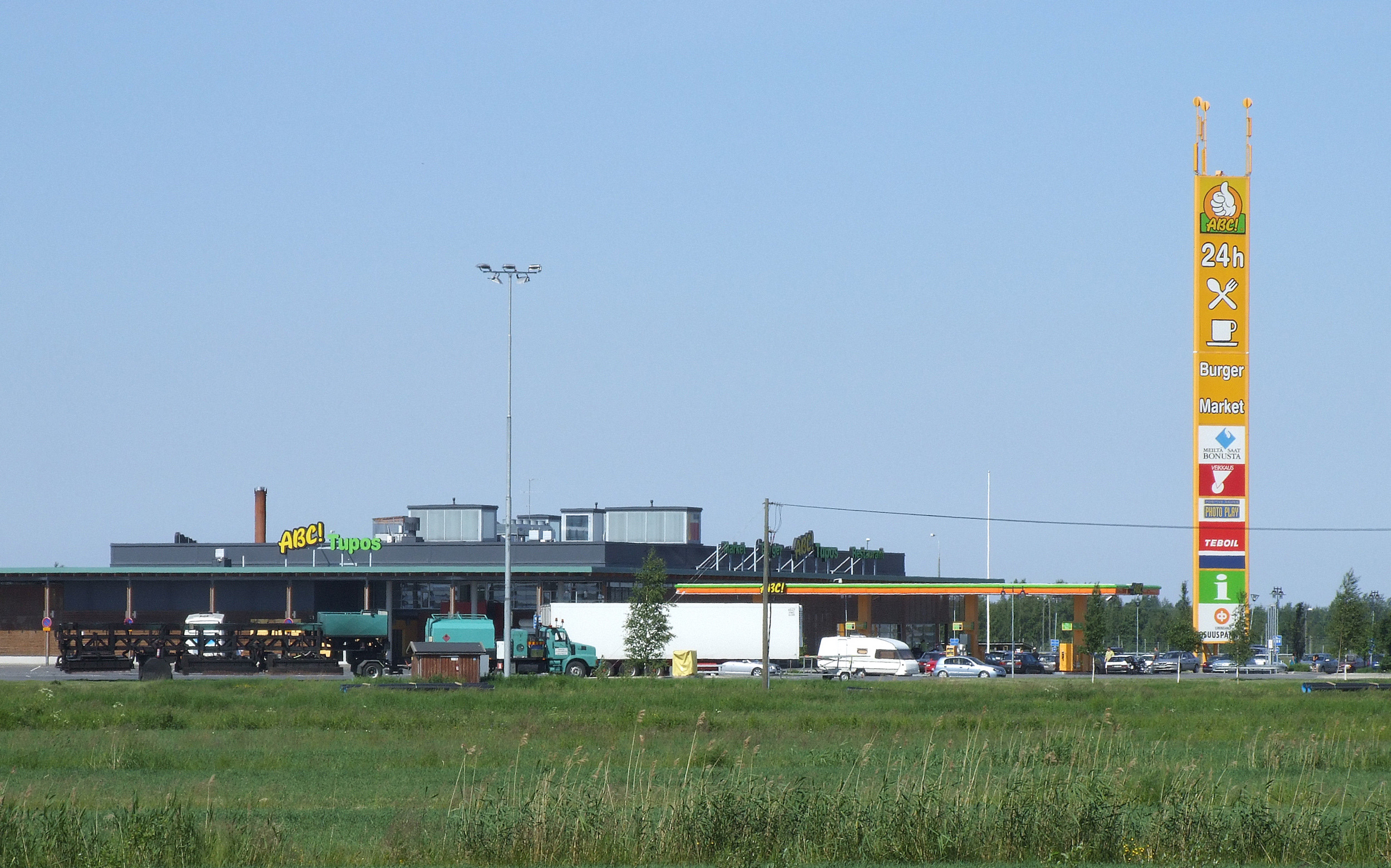 ABC Tupos service station in Tupos, Liminka, Finland.